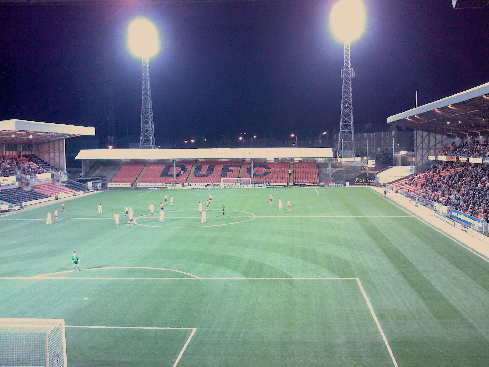 Tannadice Park, facing 'The Shed' from the East Stand - taken during the Dundee United v Hamilton Academical League Cup match on 31 Otober, 2007